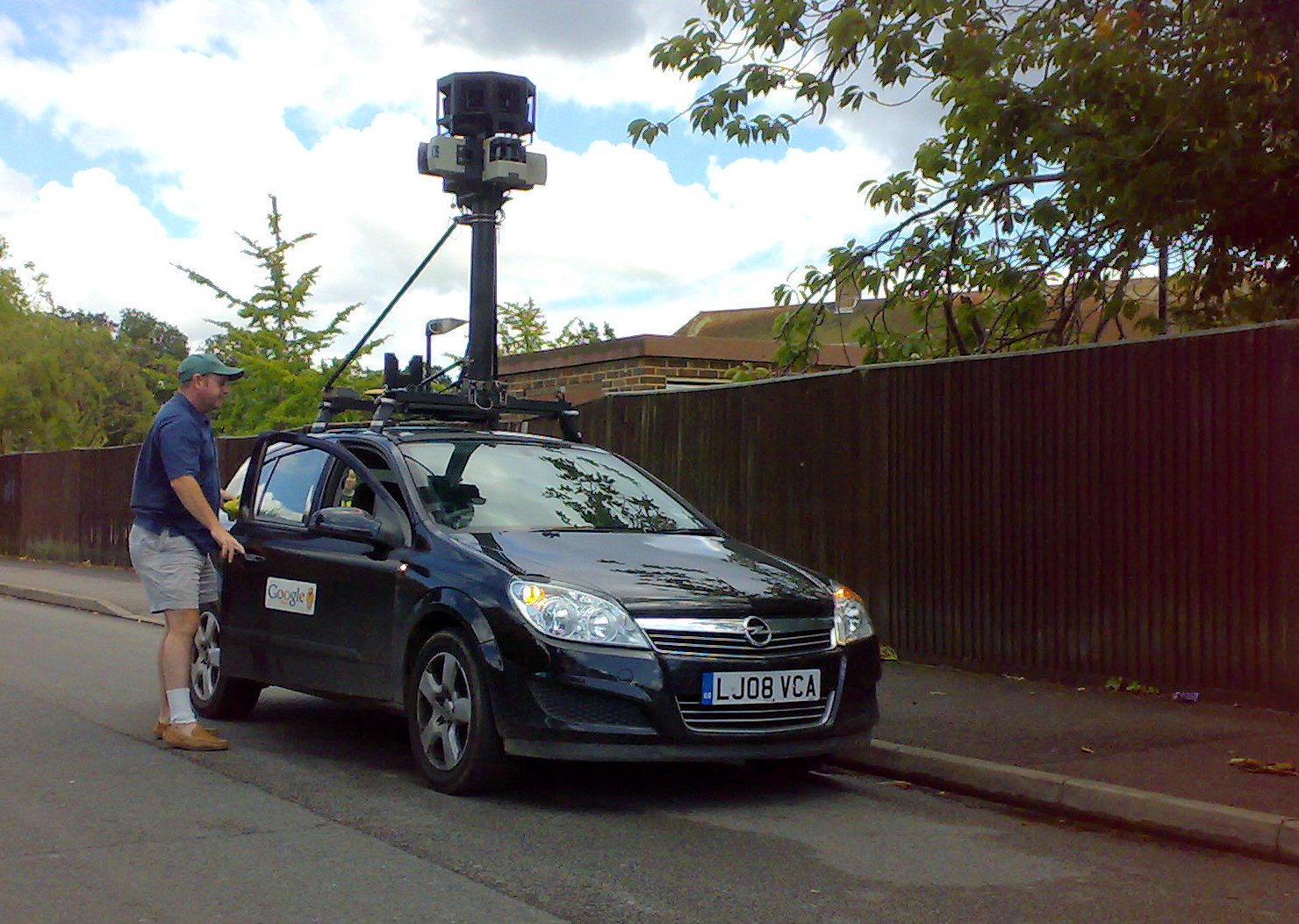 Google Street View Car in Southampton, England.